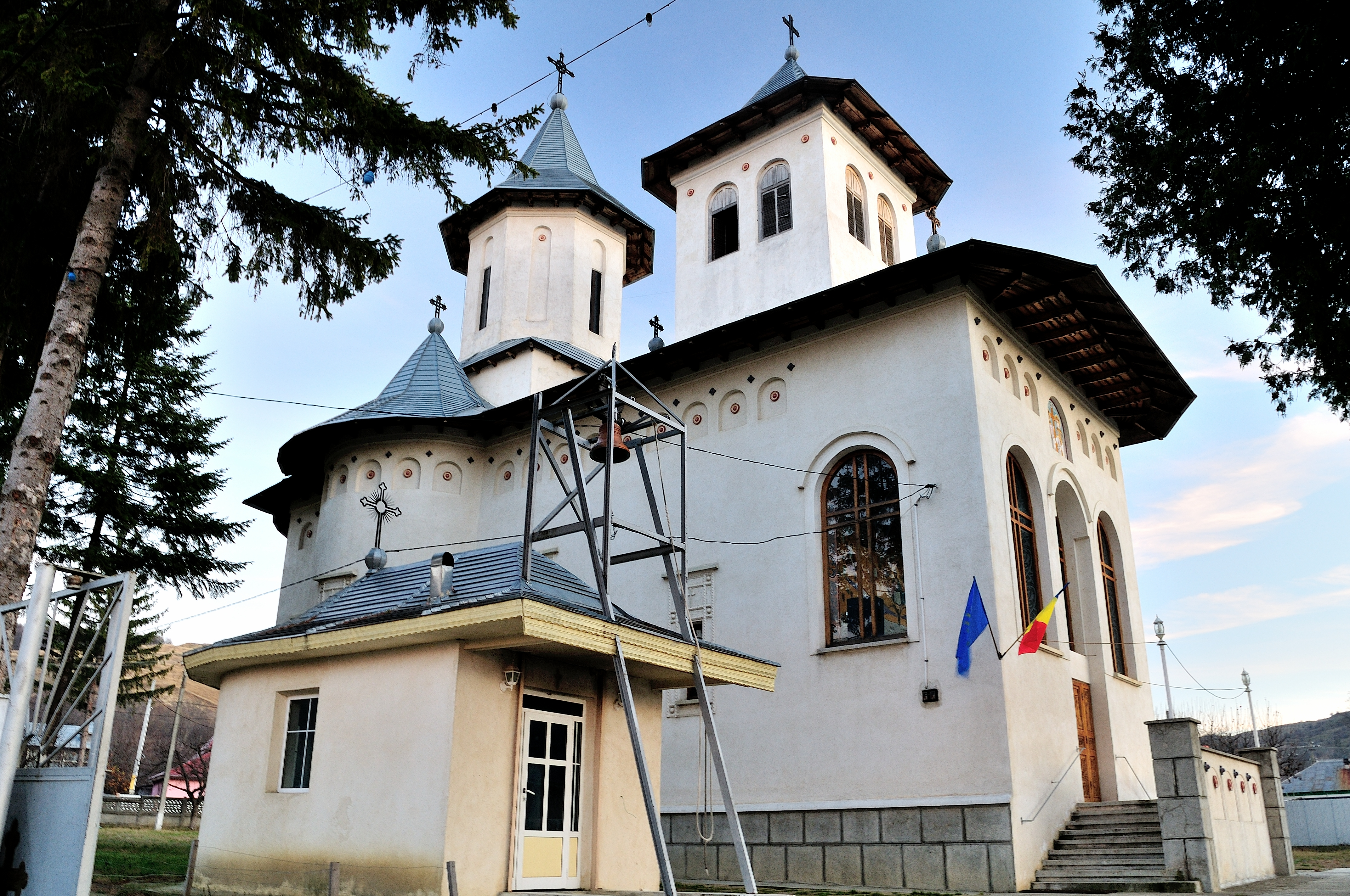 Church "St. Constantine and Elena" ,Stejaru village, township Ion Creanga, Neamt,Romania, built and opened in 2004.